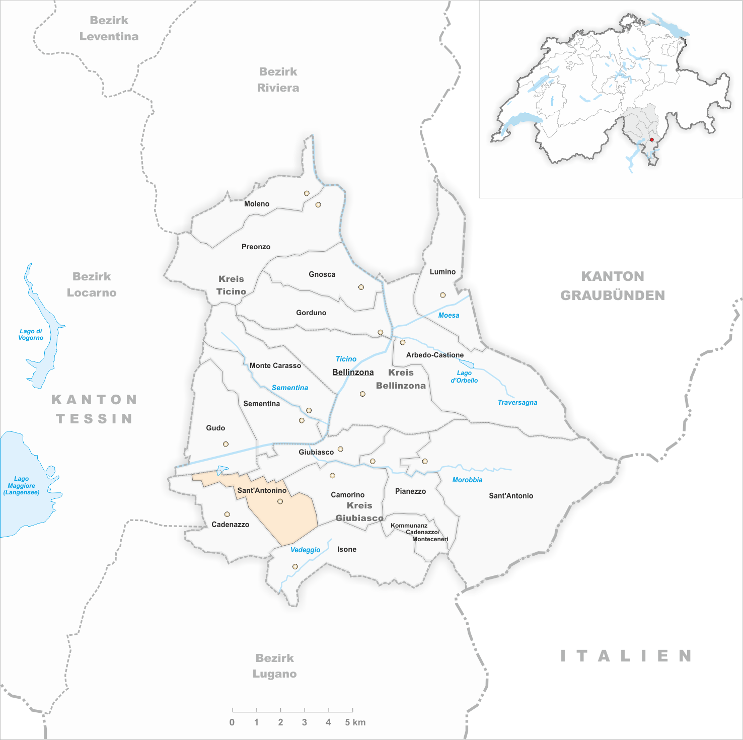 Municipality Sant'Antonino